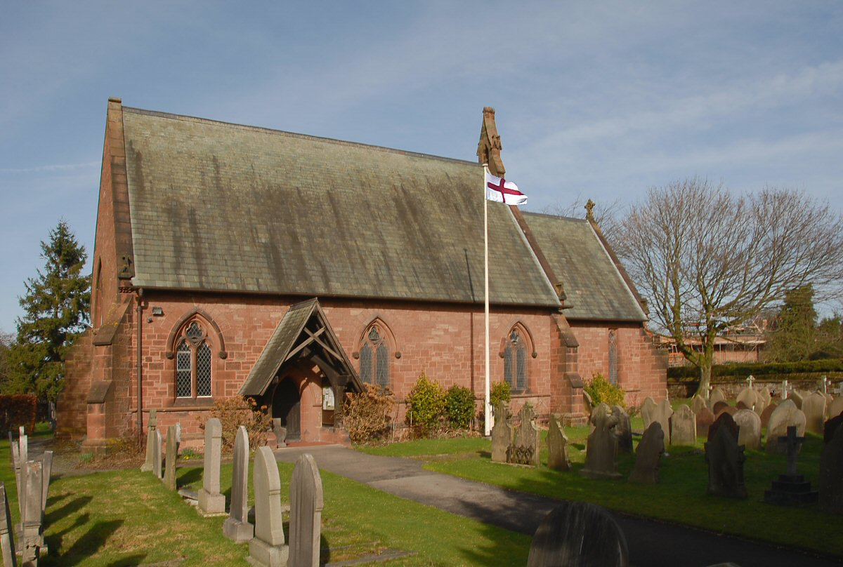 Christ Church parish church, Willaston, Cheshire, seen from the south